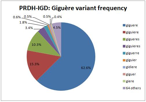 PRDH_IDG: Giguère variant frenquency